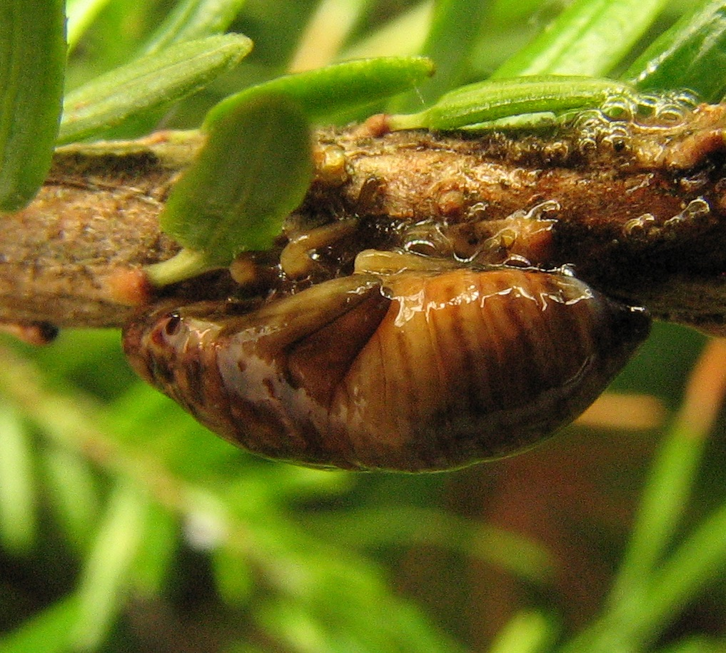 Nymph of spittlebug, Aphrophora sp. (possibly Aphrophora saratogensis) on hemlock infested by invasive Adelges tsugae (hemlock woolly adelgid). Bays Mountain Park, Sullivan County, Tennessee, USA.